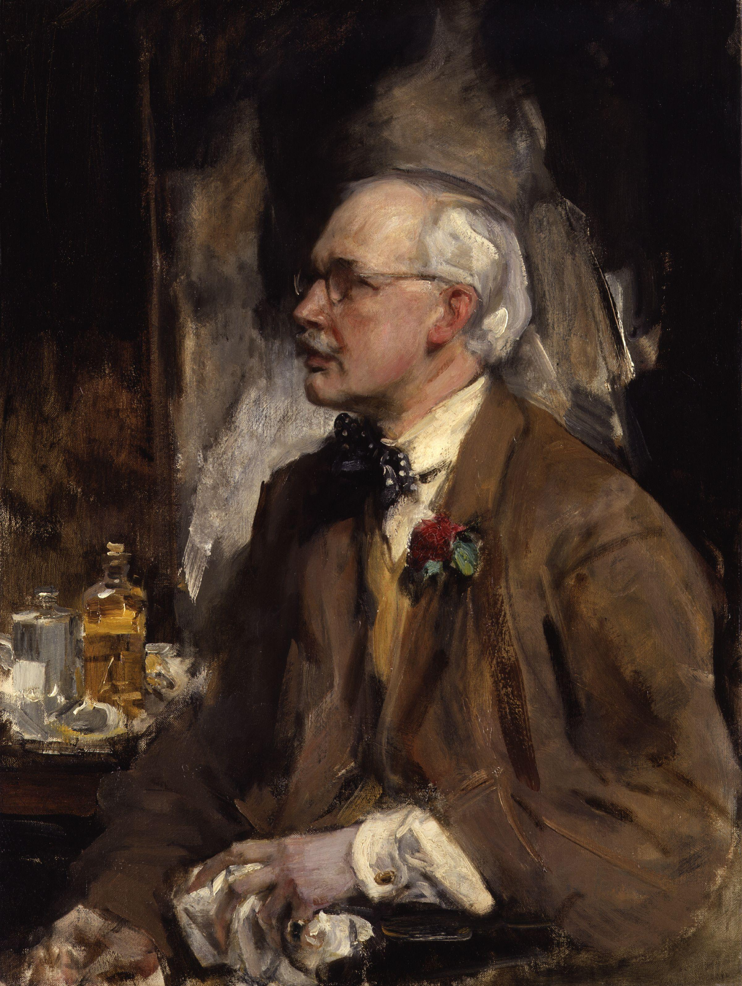 Sir James Jebusa Shannon, by Sir James Jebusa Shannon (died 1923), given to the National Portrait Gallery, London in 1964. All images in this batch have been confirmed as author died before 1939 according to the official death date listed by the NPG.